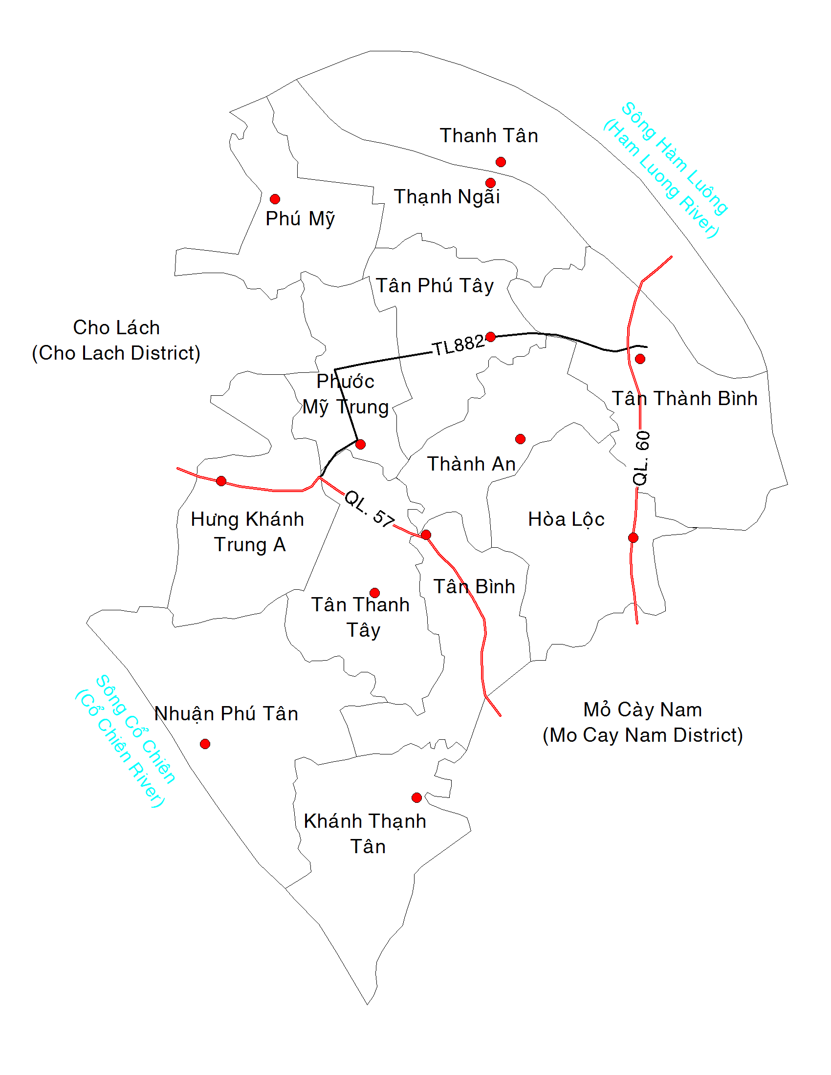 Locaiton map of Mo Cay Bac District, Ben Tre province, Vietnam